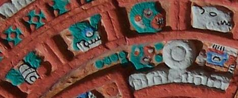 Aztec day icons Reed, Grass, Monkey, Dog from the Aztec sun stone